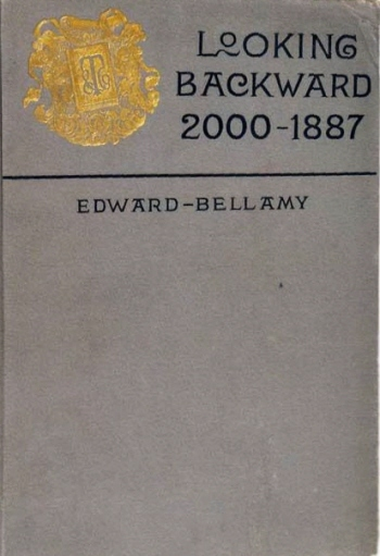 Dust-jacket of Looking Backward by Edward Bellamy.